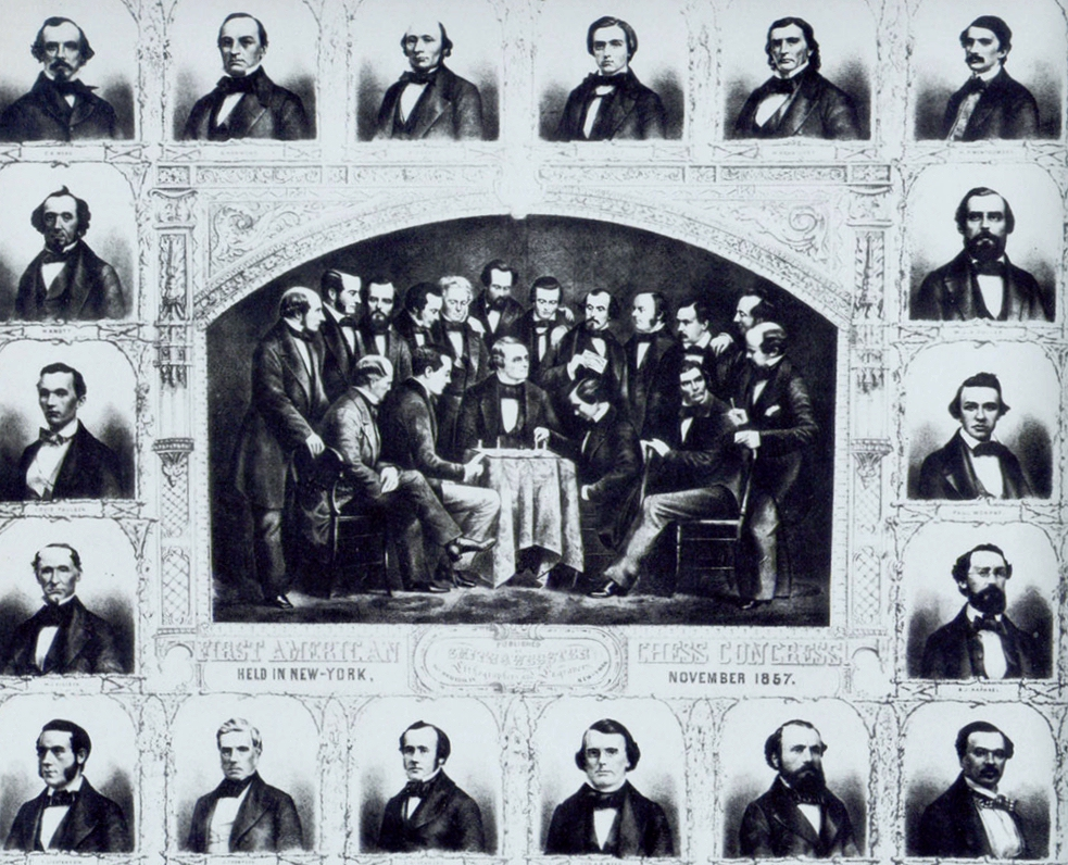 Lithograph from the First American Chess Congress, New York 1857